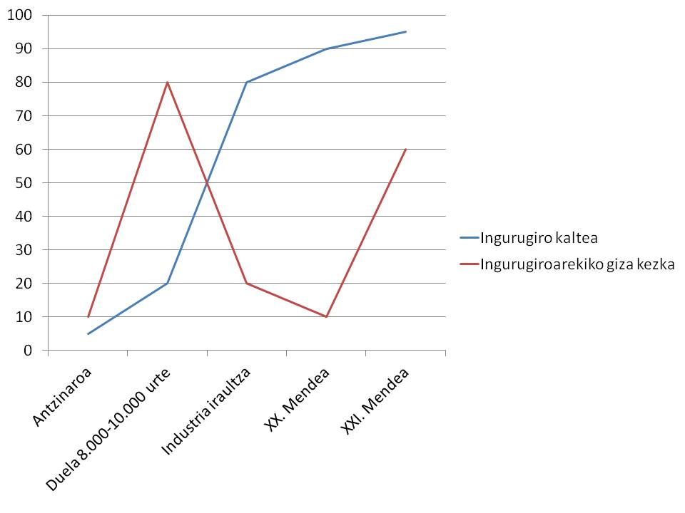 Graphic on sustainability and environment